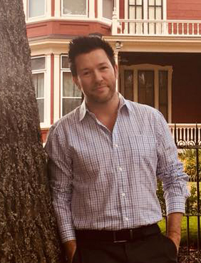 Jason Sechrest standing outside in New Jersey